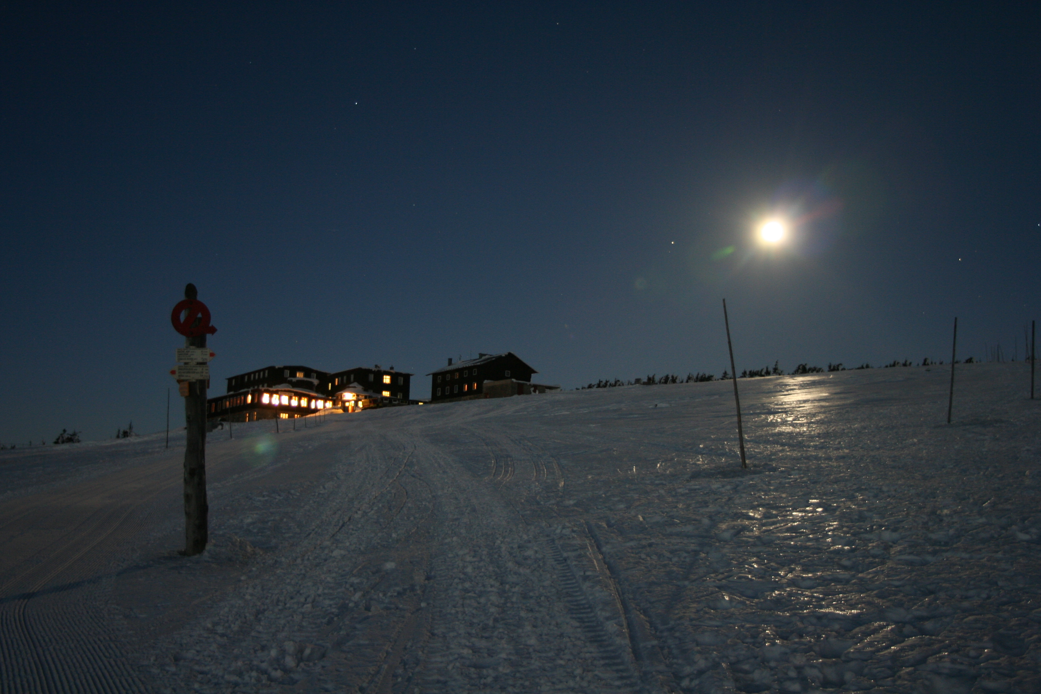 Petrova Bouda - Czech hostel located near Polish-Czech border; Karkonosze.